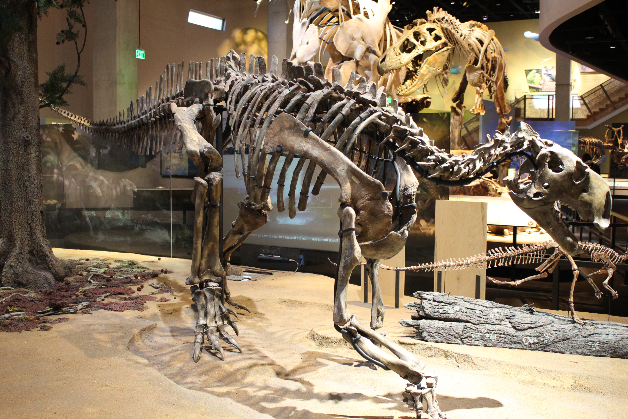 Reconstructed skeleton of Tenontosaurus, from the Cloverly Formation.